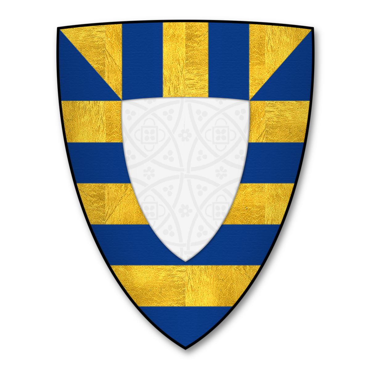 Armorial Bearings of MORTIMER family of Wigmore, Herefordshire. An ancient and distinguished family of this County, whose head was Roger, Earl of March. Arms: Barry of six or and azure on a chief of the first two pallets between two base esquierres of the second, over all an inescutcheon argent. Strong, George (1848) The Heraldry of Herefordshire: Being a Collection of the Armorial Bearings of Families Which Have Been Seated in the County at Various Periods Down to the Present Time., London: Churton Press